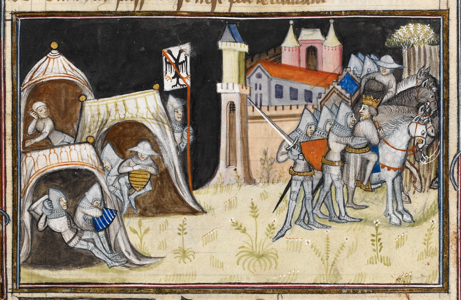 Detail of a miniature of the capture of Don Pedro, from Jean Cuvelier's Chanson de Bertrand du Guesclin.